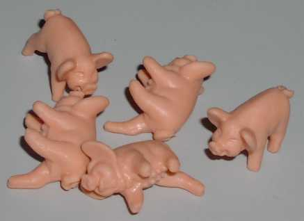 Model pigs used as dice.